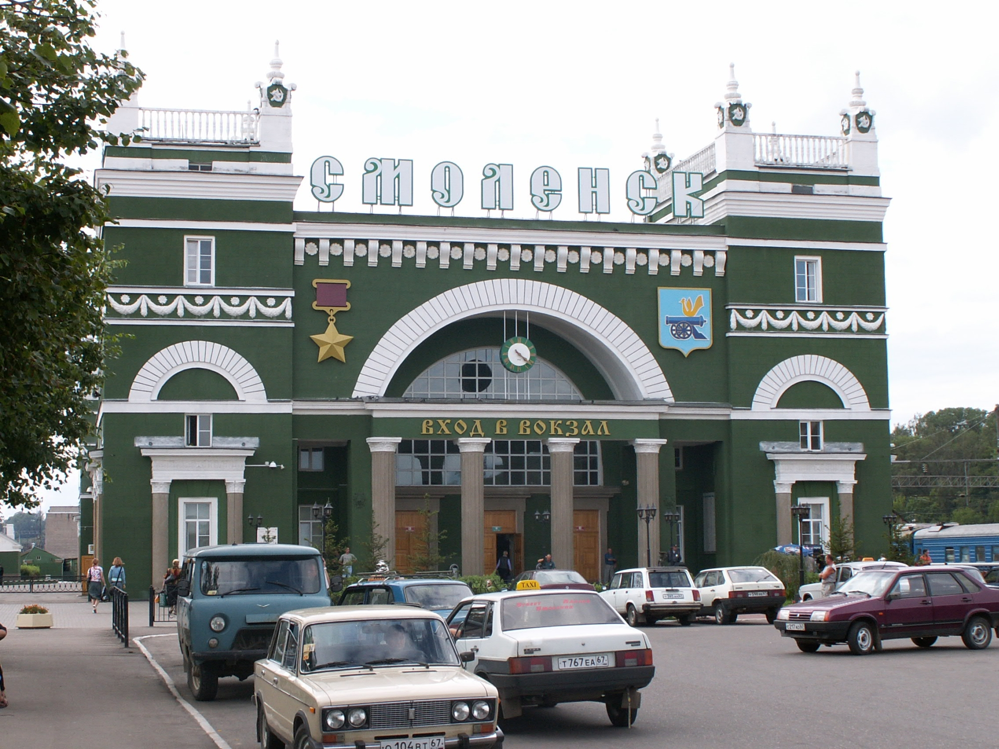 Smolensk railway station.jpg